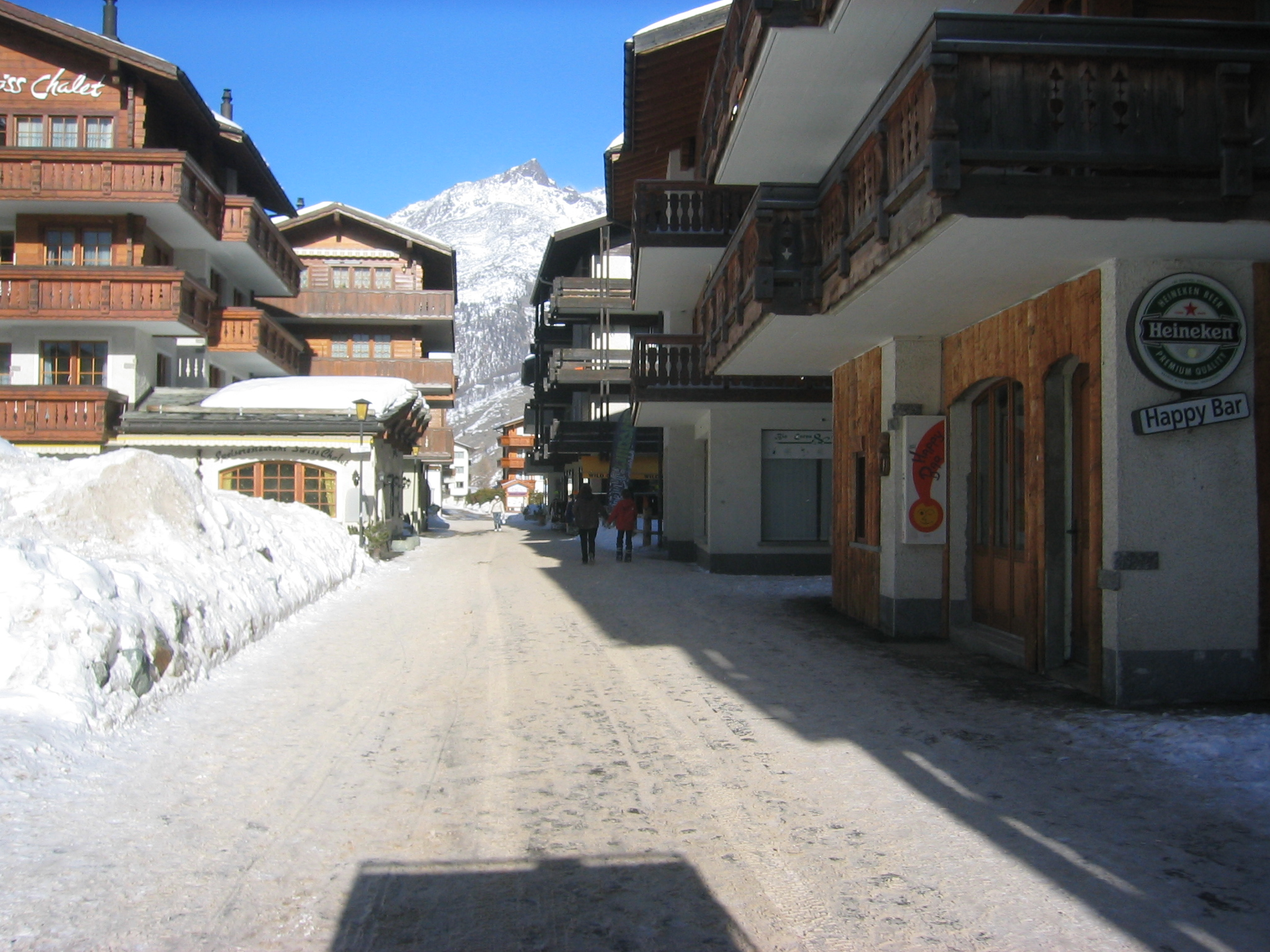 Saas-Fee, Wallis, Switzerland